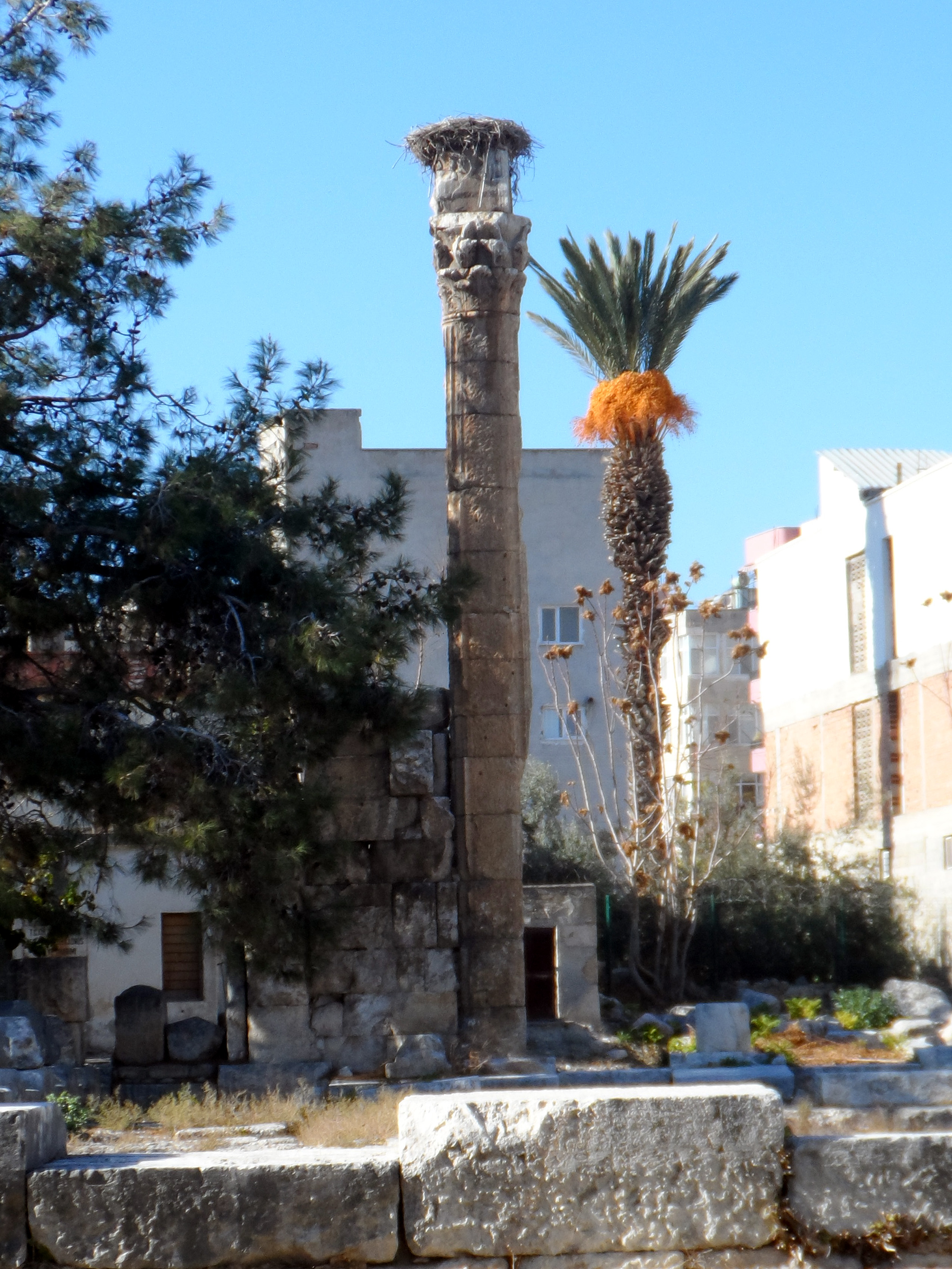 Hellenistic temple in Silifke